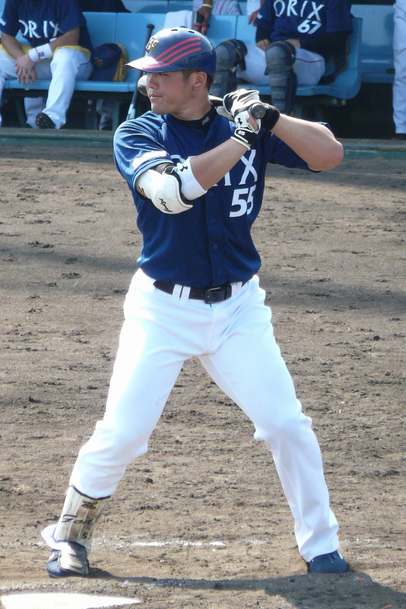 Takahiro Okada, a.k.a. T-Okada, outfielder of the Orix Buffaloes, at Hanshin Naruohama Baseball Ground